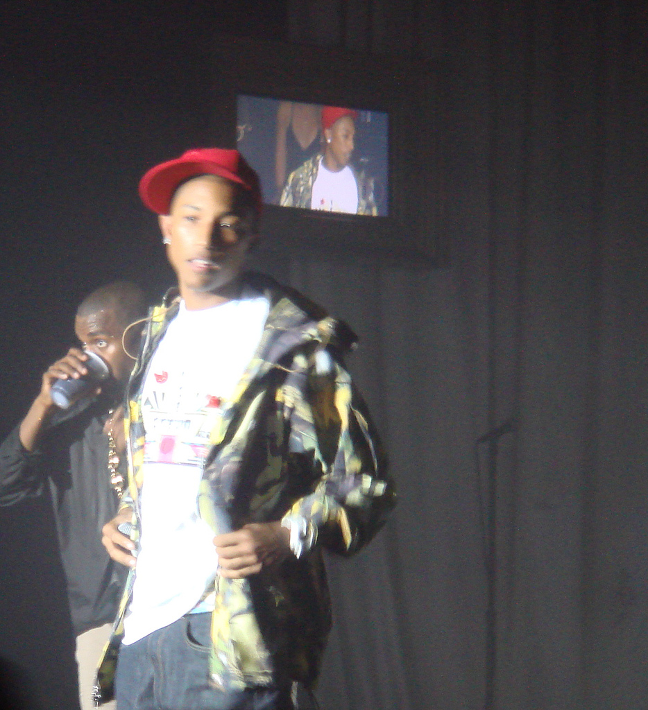 American Express presents Kanye West (f. John Legend, Common, and Pharrell) @ the Nokia Theater in Times Square, 8/29/2006